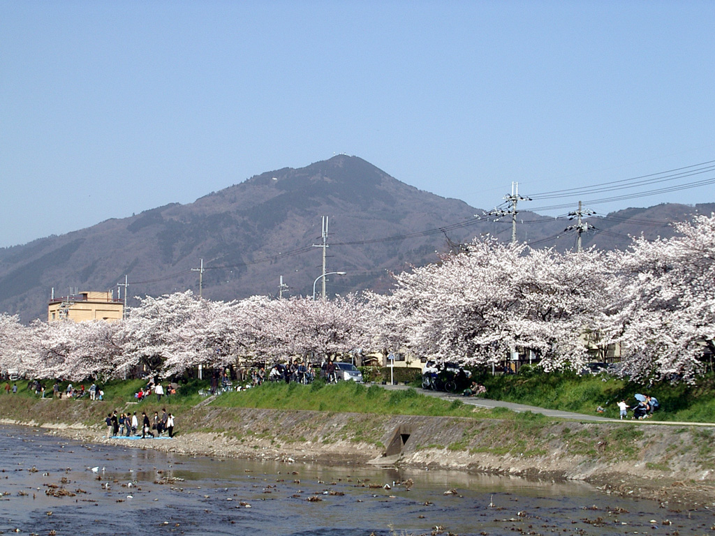 Mout Hiei seen from the WSW. Tanano River in the foreground.